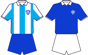 Colours of Canto do Rio F.C.